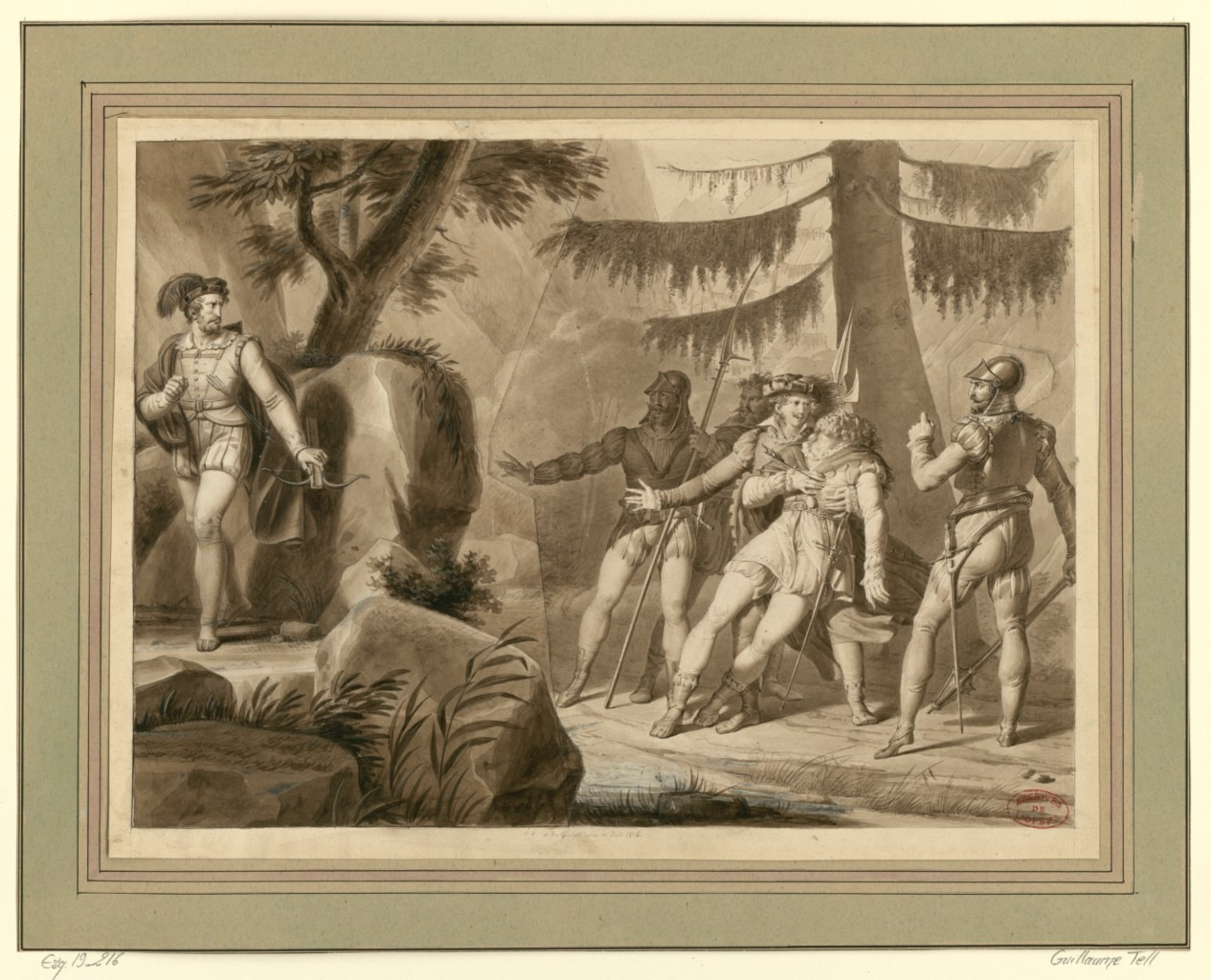 Gioachino Rossini - Guillaume Tell - Charles-Abraham Chasselat - dessin préparatoire à la gravure 2